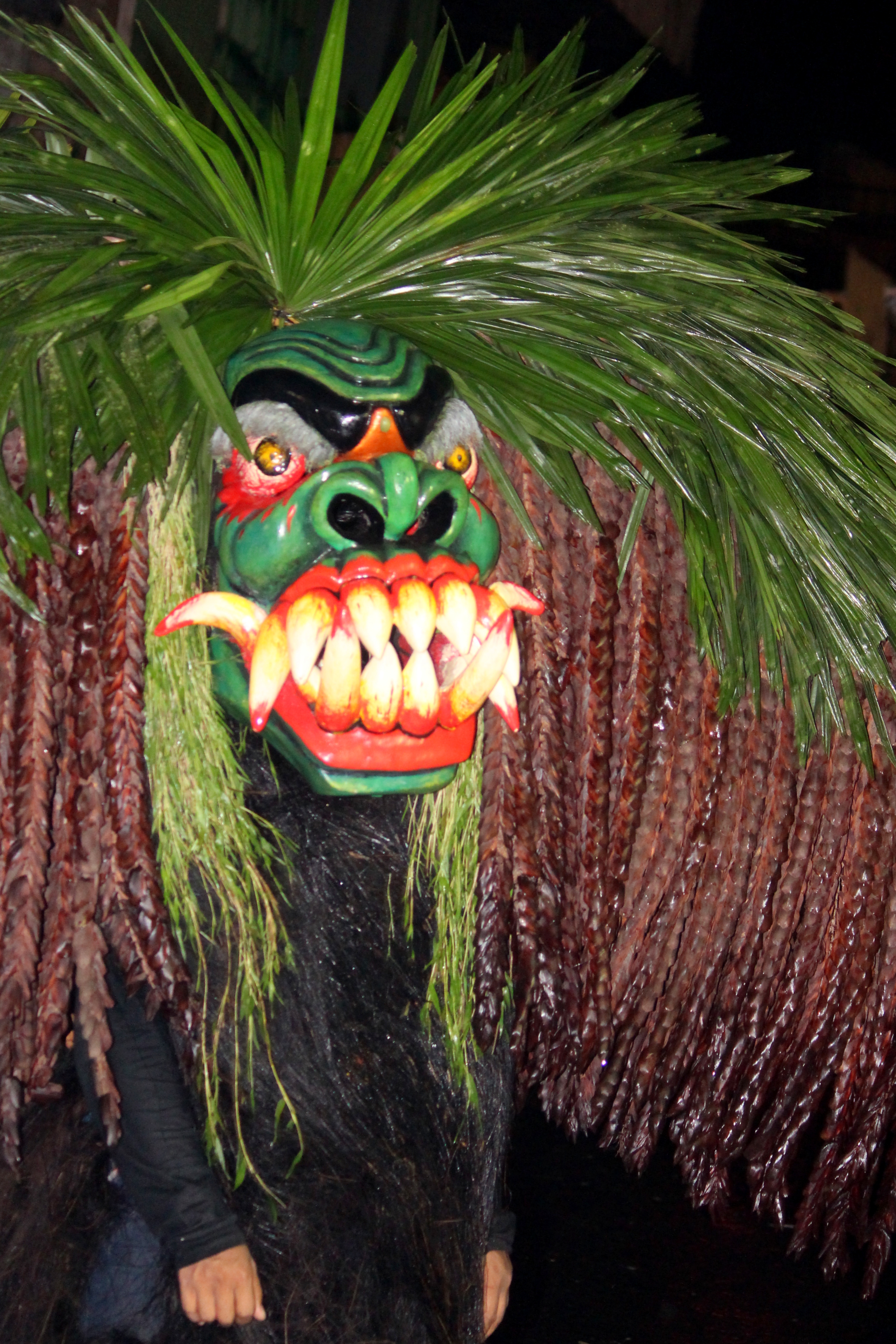 The costume called as "Bebegig" or A Scarecrow from Ciamis, West Java, Indonesia. The appearance was seen during CGM Bogor Street Festival (Lantern Festival) 2018. (The same photo was used for an article : "Will This Scarecrow From Ciamis, Indonesia Scare Birds? in Talking Indonesia (